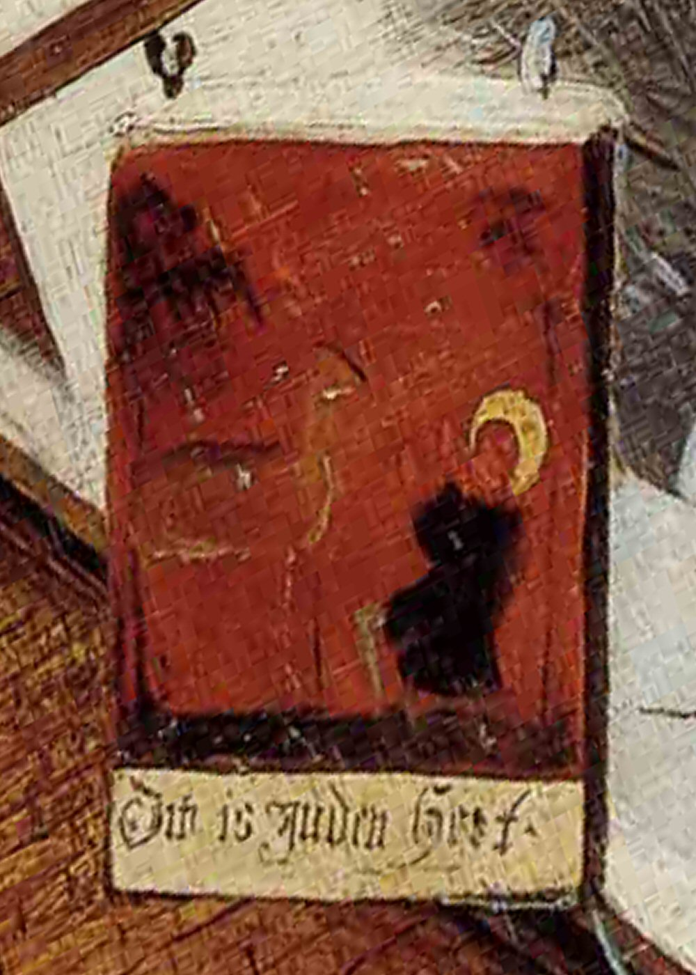 Pieter Bruegel the Elder - Hunters in the Snow Detail, distorted Signboard